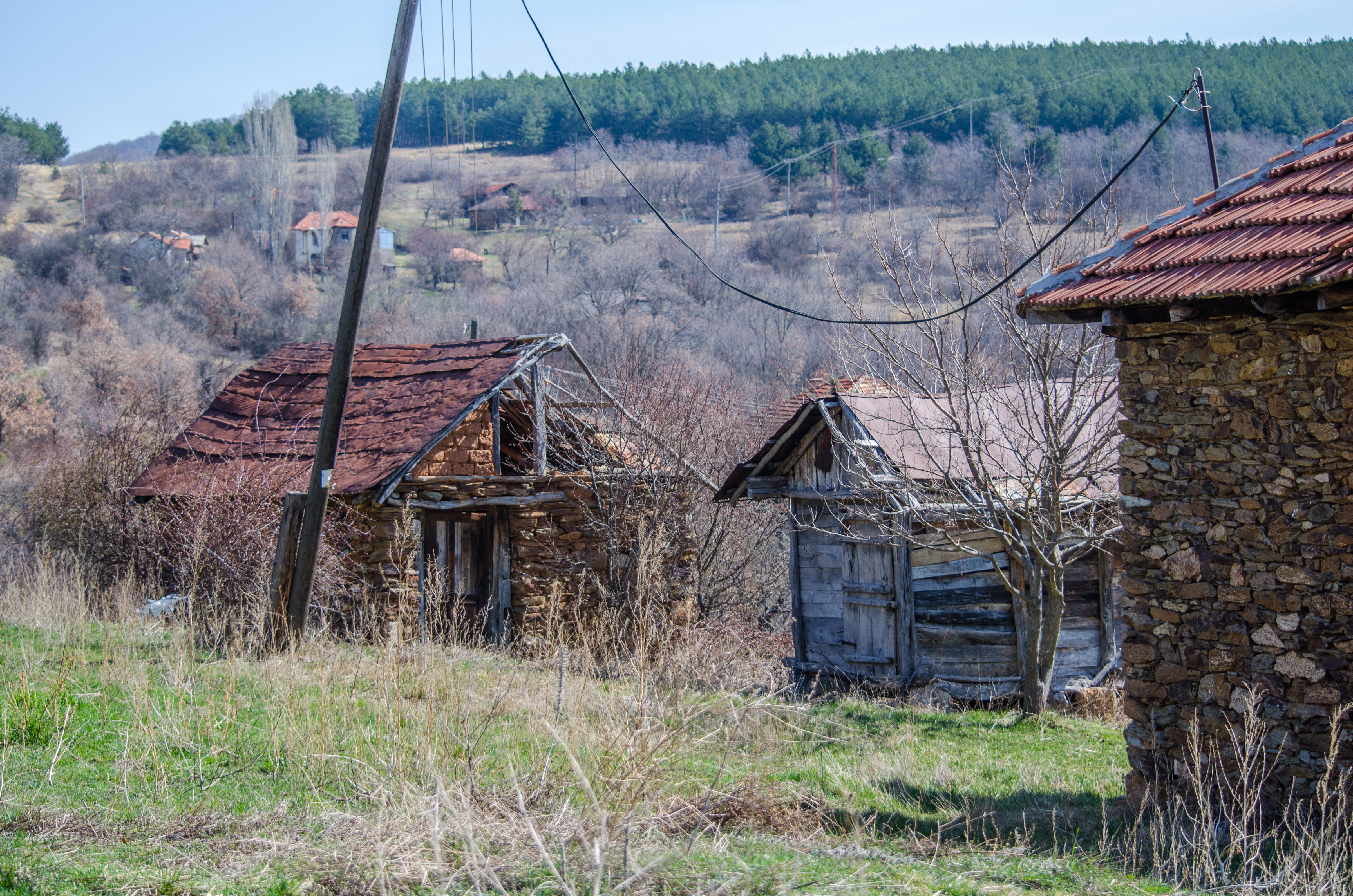 Architecture in Žegljane, Macedonia